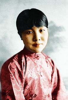 Bing Xin ,was one of the most prolific and esteemed Chinese writers of the 20th Century. Many of her works were written for young readers. She was the chairperson of the China Federation of Literary and Art Circles.